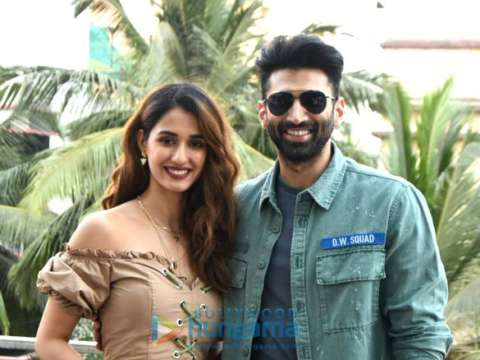 Photos: Disha Patani and Aditya Roy Kapur snapped during Malang promotions